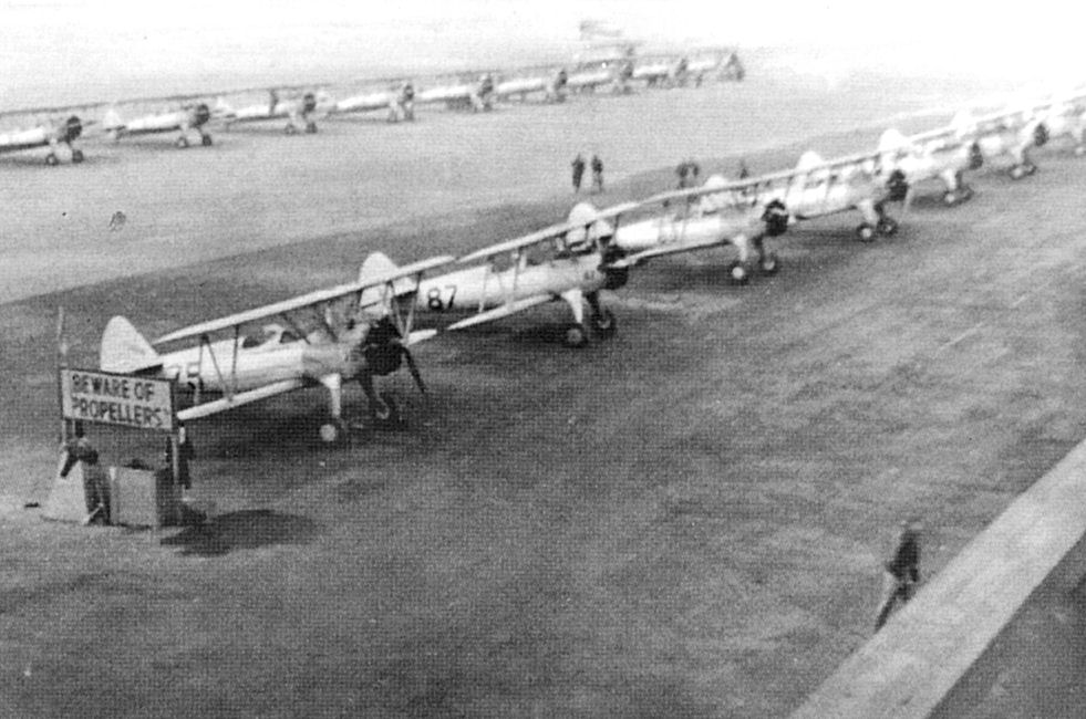 PT-17 Boeing Stearmans Douglas Army Airfield, Georgia, 1943